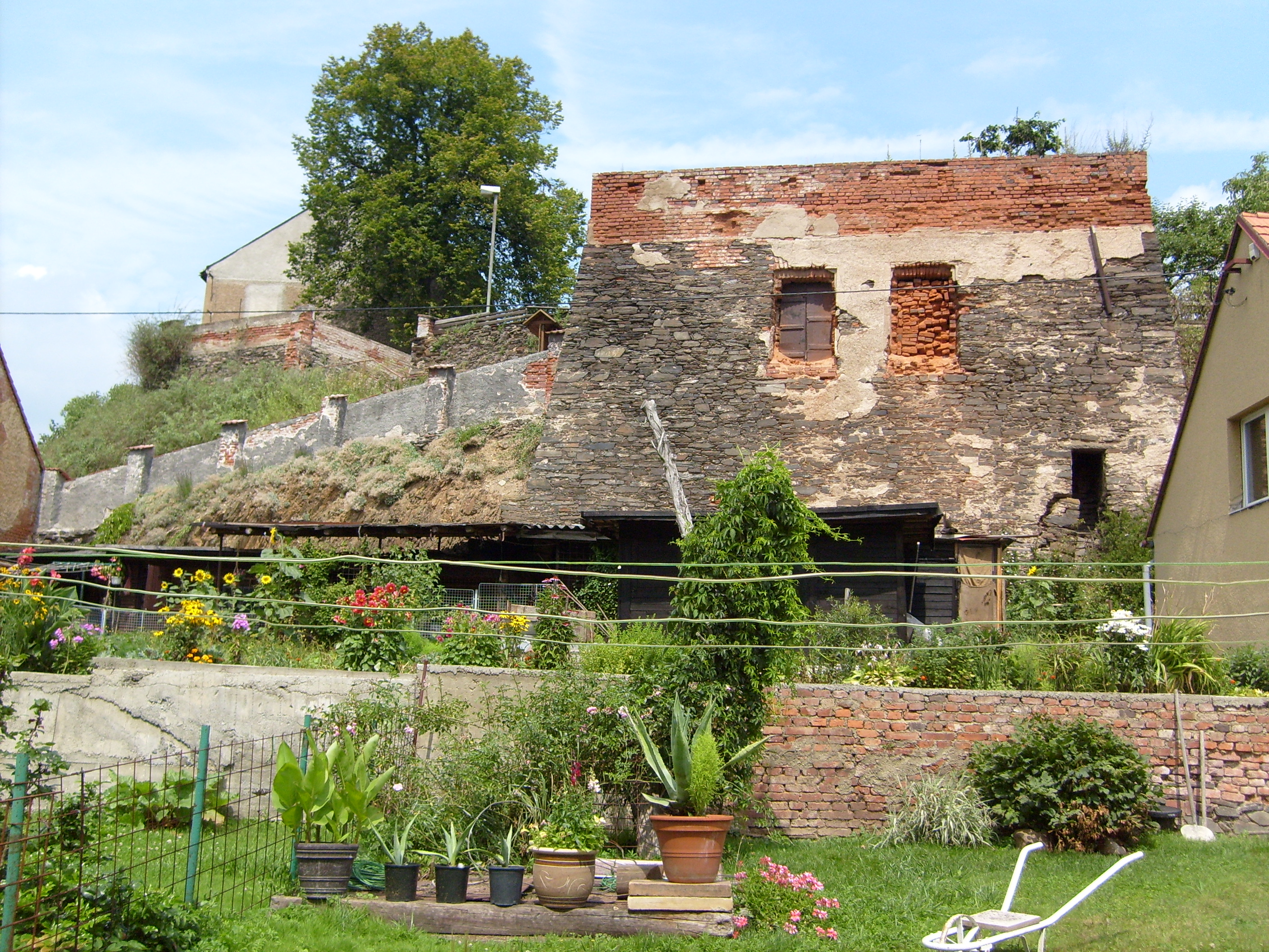 Synagogue, Chyše, Karlovy Vary Region, Czech Republic